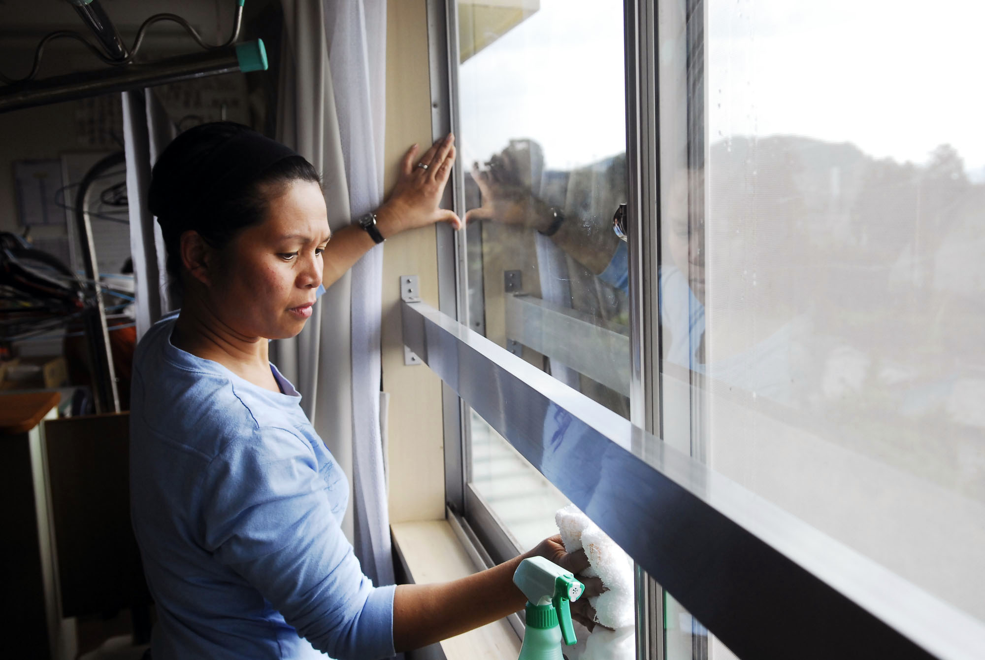 SASEBO, Japan (March 1, 2009) Lt. Lelanie Aratea, from San Diego, cleans windows in the common room of the Kibono Ie nursing home in Saikai-cho town during a community service project. Aratea is an administration officer assigned to the "Raptors" of Helicopter Maritime Strike Squadron (HSM) 71 embarked aboard the aircraft carrier USS John C. Stennis (CVN 74). John C. Stennis is in Sasebo as part of a scheduled port visit during a six-month deployment to the western Pacific Ocean. (U.S. Navy photo by Mass Communication Specialist 3rd Class Dmitry Chepusov/Released)